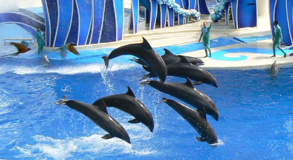 Performing bottlenose dolphins - from left to right Marble, Porter, Jensen, Starbuck, Baretta, and Clyde - and blue macaws at SeaWorld Orlando's one of a kind show, "Blue Horizons".